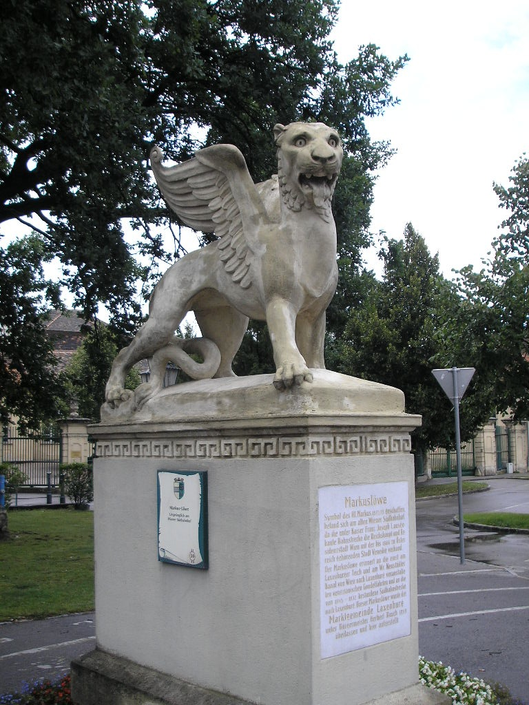 Lion of St. Marcus, symbol of Venice. It used to stand at the South Train Station in Vienna.